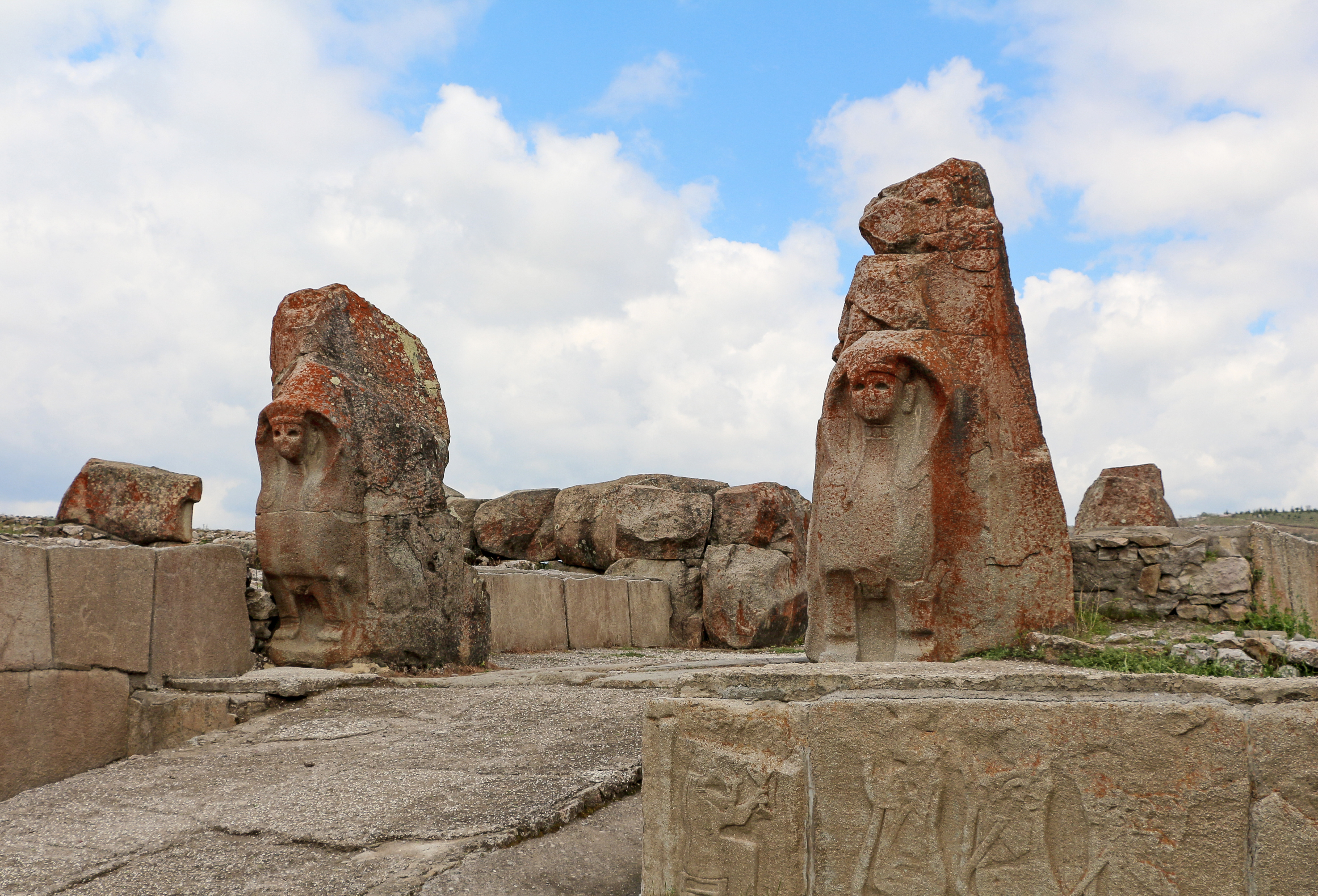 Sphinx Gate, Alaca Höyük, Turkey